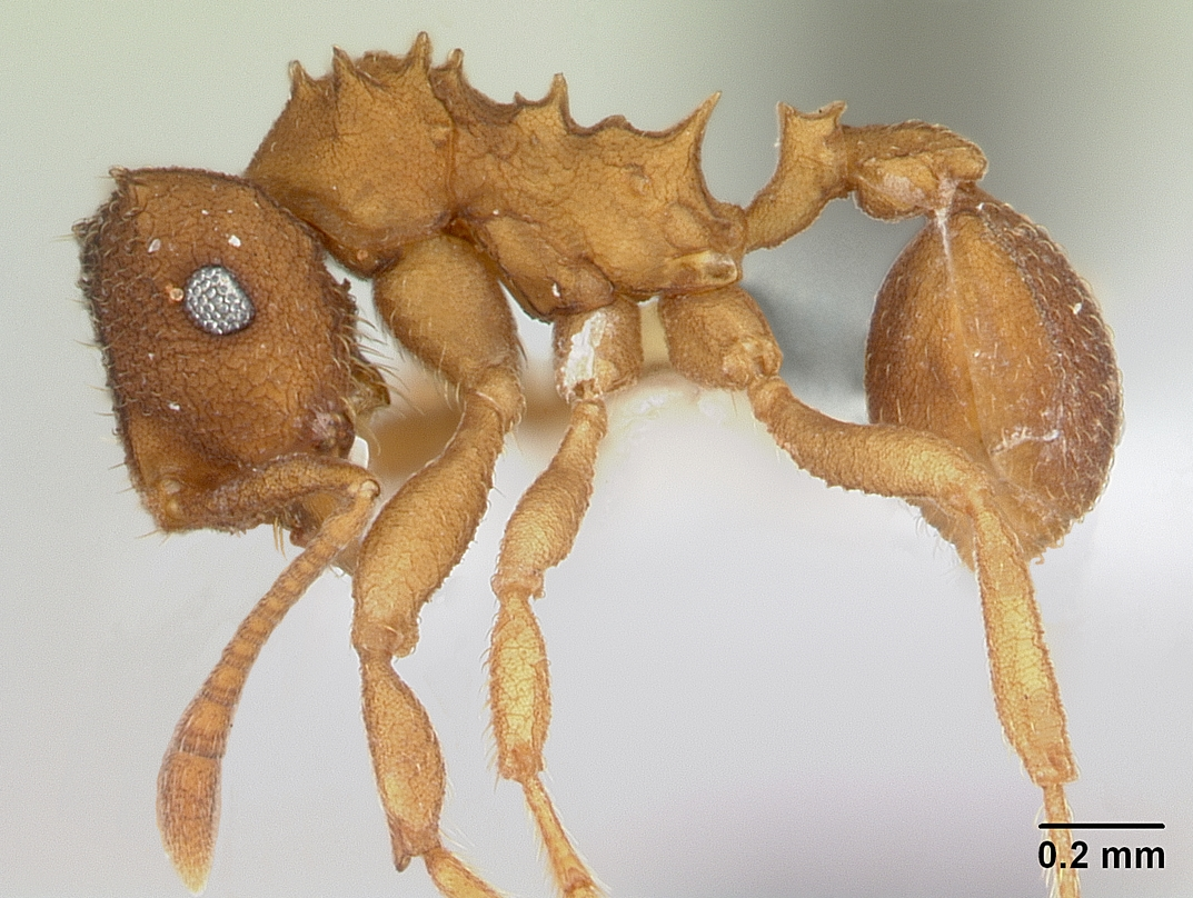 Mycocepurus smithii (Forel, 1893) Taxonomic Hierarchy: Subfamily: Myrmicinae Genus: Mycocepurus Taxonomic History (provided by Barry Bolton, 2009) smithii. Atta (Mycocepurus) smithii Forel, 1893g: 370 (w.) ANTILLES. Kempf, 1963b: 425 (q.). Combination in Mycocepurus: Wheeler, W.M. & Mann, 1914: 42. Senior synonym of attaxenus, bolivianus, borinquenensis, eucarnitae, manni, reconditus, tolteca, trinidadensis: Kempf, 1963b: 425. Specimen Code: CASENT0173989 Locality: Paraguay: Concepción: Kurusu de Isabel, 15 km N of Concepción; 23°20'00"S 057°20'00"W Collection Information: Collection codes: AW0596 Collected by: A.L. Wild Habitat: mixed citrus Date Collected: 6 Feb 1998 Specimen Information: Life Stage: 3w Located at: ALWC Owned by: ALWC